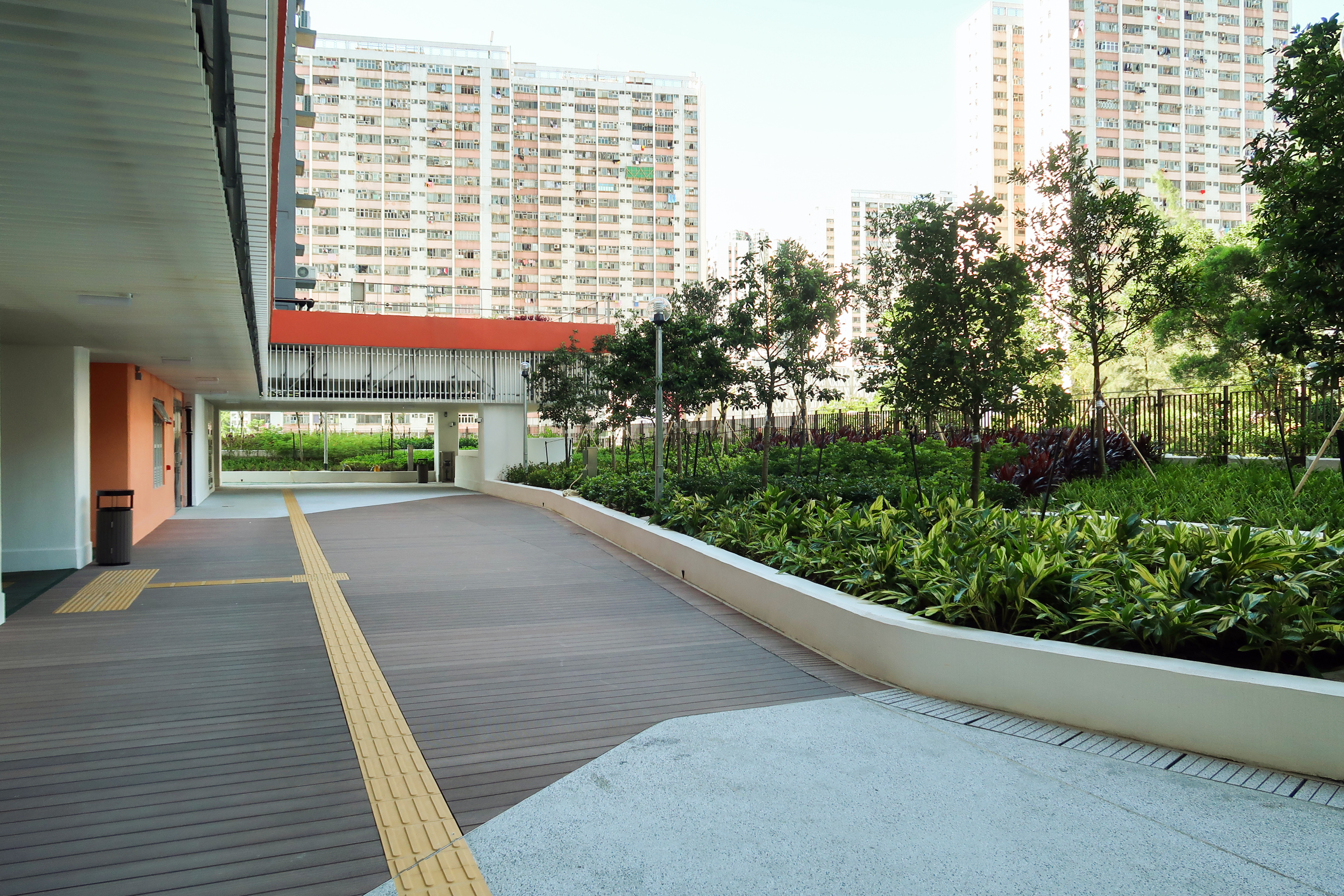 Choi Hing Court Block C Landscape Area